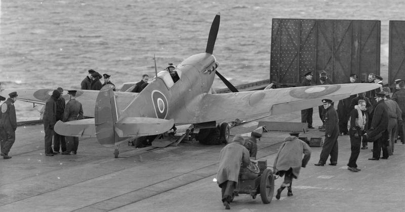 Fleet Air Arm Trials, Aboard HMS Victorious. 23-25 September 1942. A Supermarine Seafire on the accelerator ready for launching.